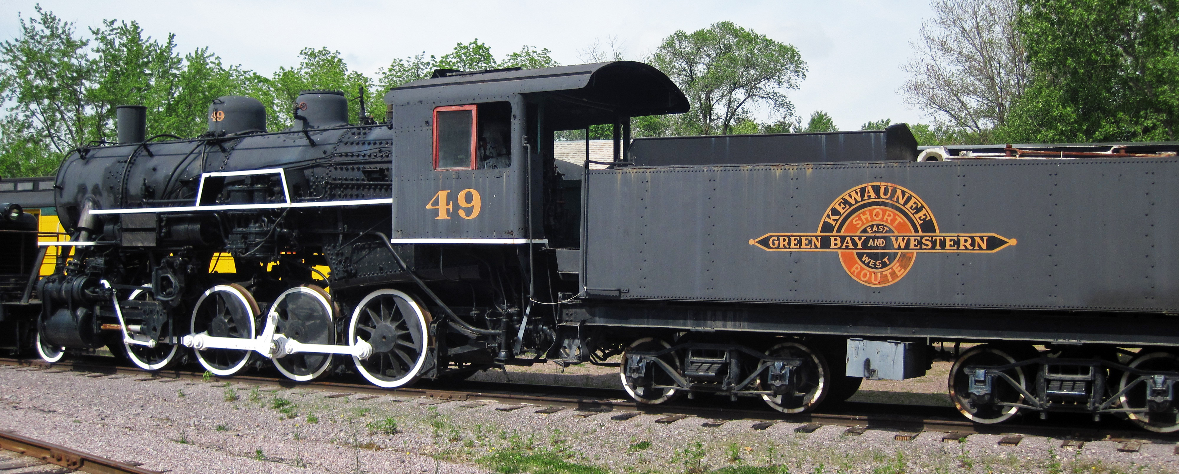 This is a 2-8-0 steam locomotive and tender built in 1929 by the American Locomotive Company for the Kewaunee, Green Bay & Western Railroad. It is now part of the Mid-Continent Railway Museum collection in the town of North Freedom, Wisconsin. The railroad ballast on the ground is crushed Baraboo Quartzite, which is ~1.7 billion years old (Paleoproterozoic). It comes from a nearby quarry in the Baraboo Ranges of southern Wisconsin. More info.